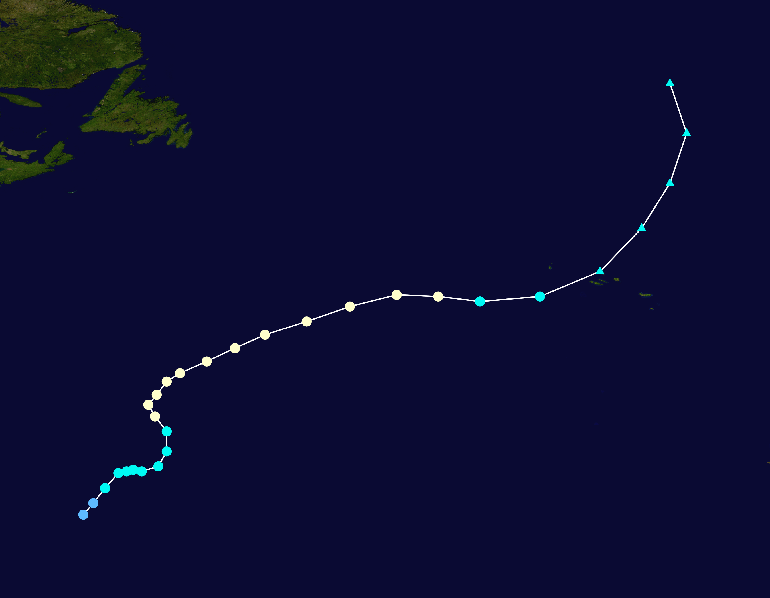 Track map of Hurricane Tanya of the 1995 Atlantic hurricane season. The points show the location of the storm at 6-hour intervals. The colour represents the storm's maximum sustained wind speeds as classified in the Saffir–Simpson scale (see below), and the shape of the data points represent the nature of the storm, according to the legend below. Saffir–Simpson scale Tropical depression≤38 mph≤62 km/h Category 3111–129 mph178–208 km/h Tropical storm39–73 mph63–118 km/h Category 4130–156 mph209–251 km/h Category 174–95 mph119–153 km/h Category 5≥157 mph≥252 km/h Category 296–110 mph154–177 km/h Unknown Storm type Tropical cyclone Subtropical cyclone Extratropical cyclone / Remnant low / Tropical disturbance / Monsoon depression